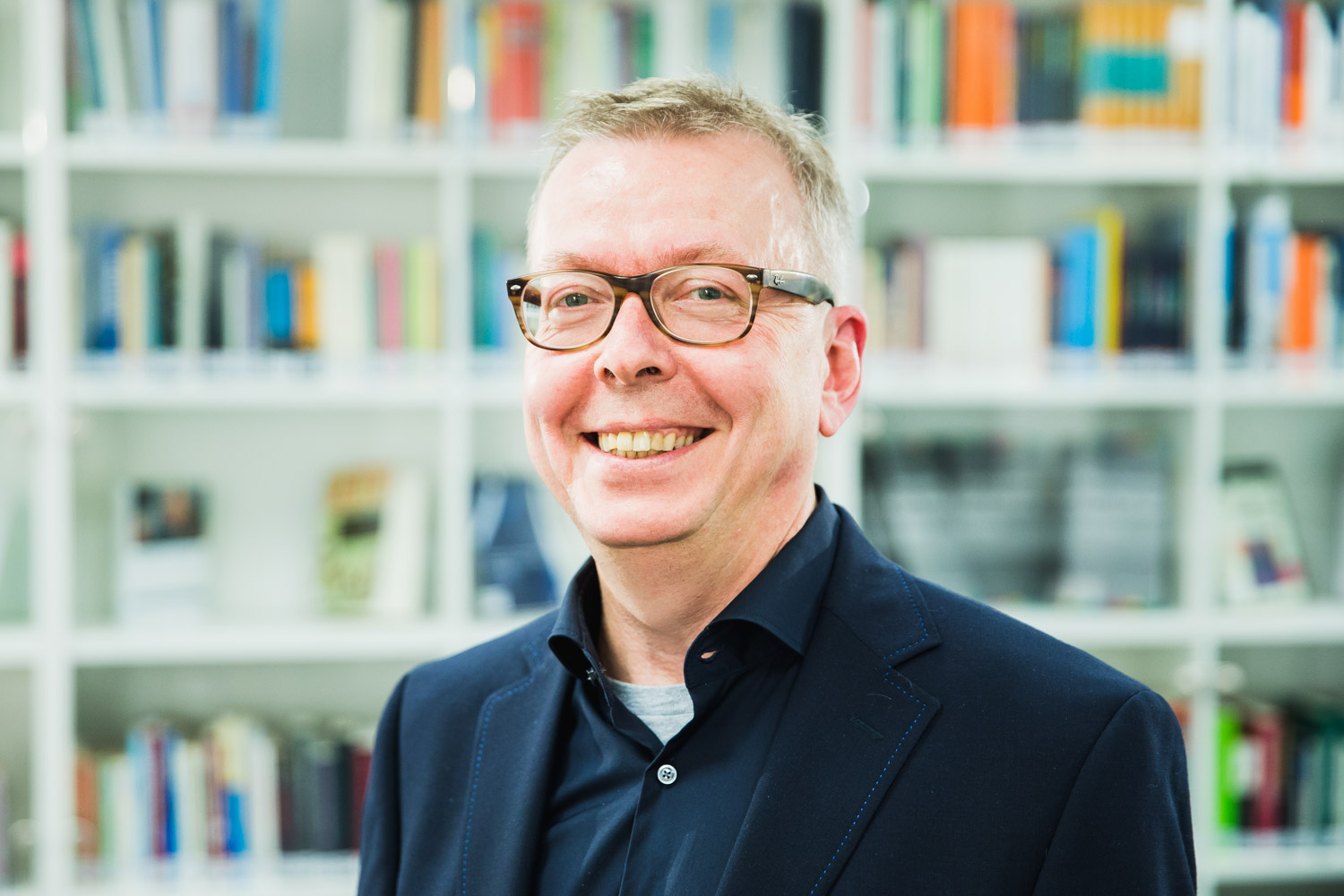 Professor Dr. Volker Heins of the Institute for Advanced Studies in the Humanities (Essen, Germany)